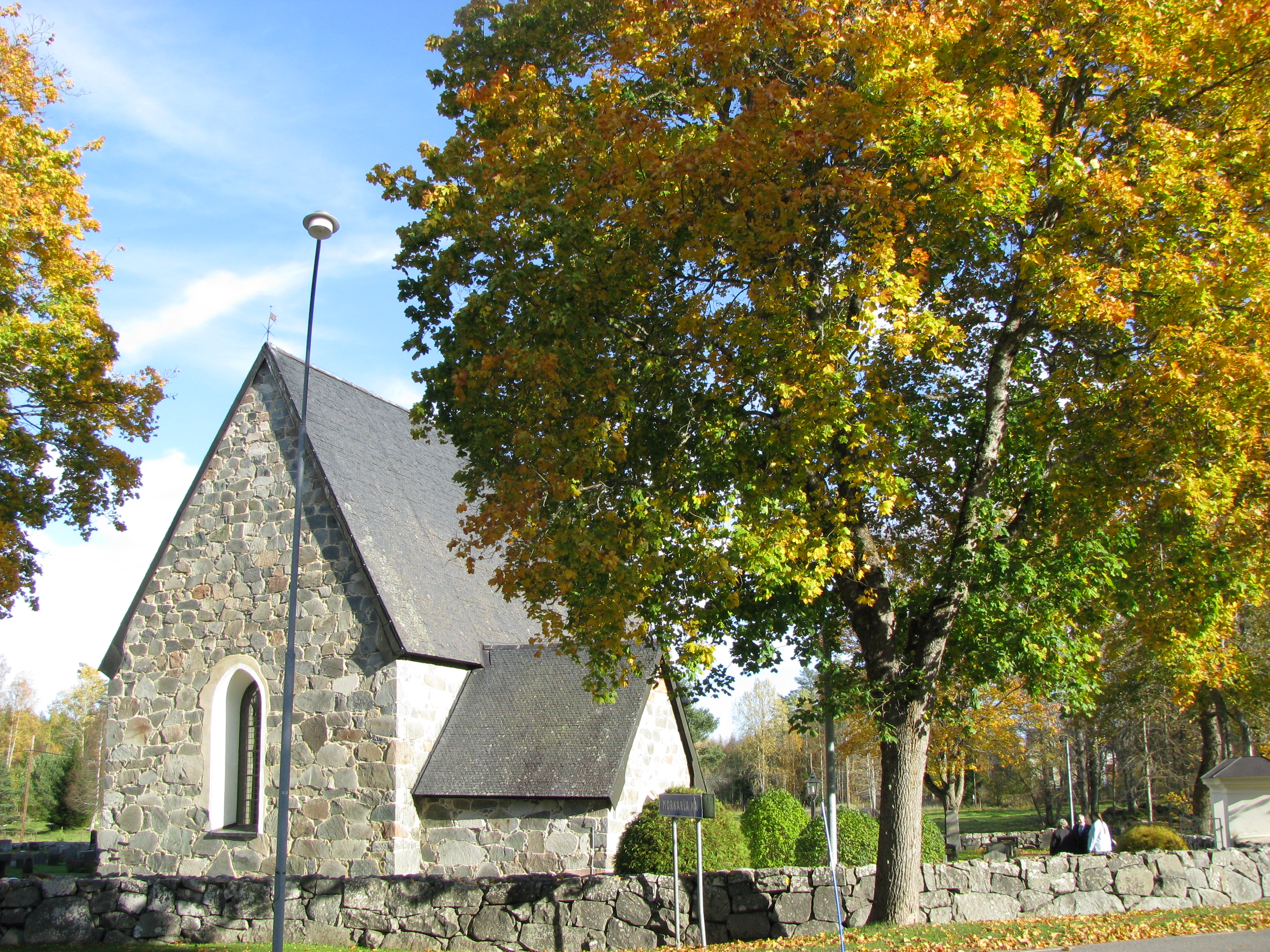 Exterior of Morkarla church.